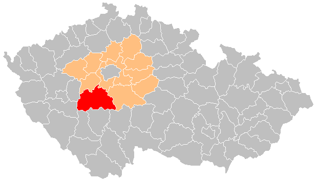 Příbram District within Central Bohemian Region. Current borders of districts since January 1, 2007.